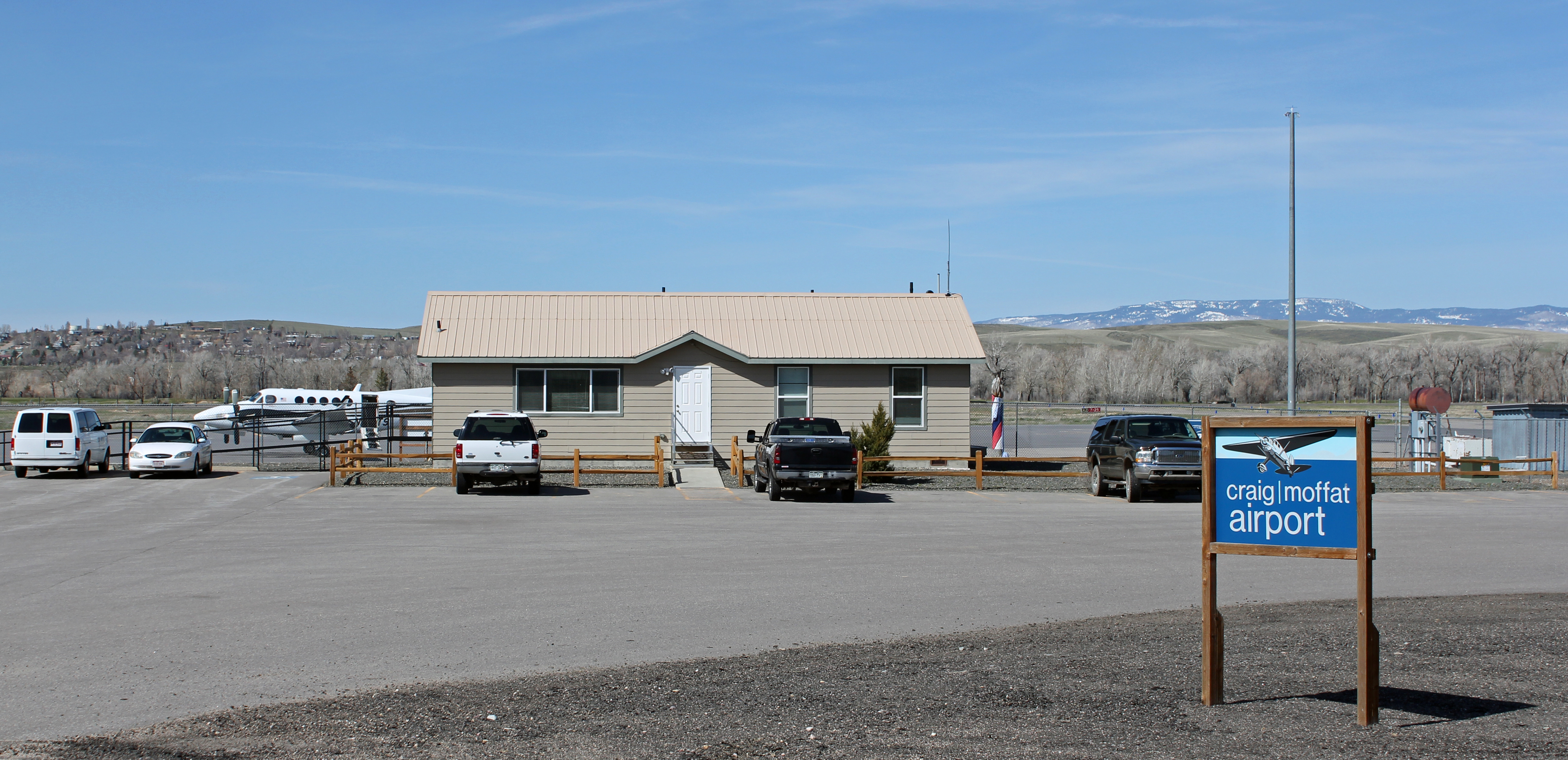 The Craig–Moffat Airport, located at 3005 Highway 394, near Craig, in Moffat County, Colorado.